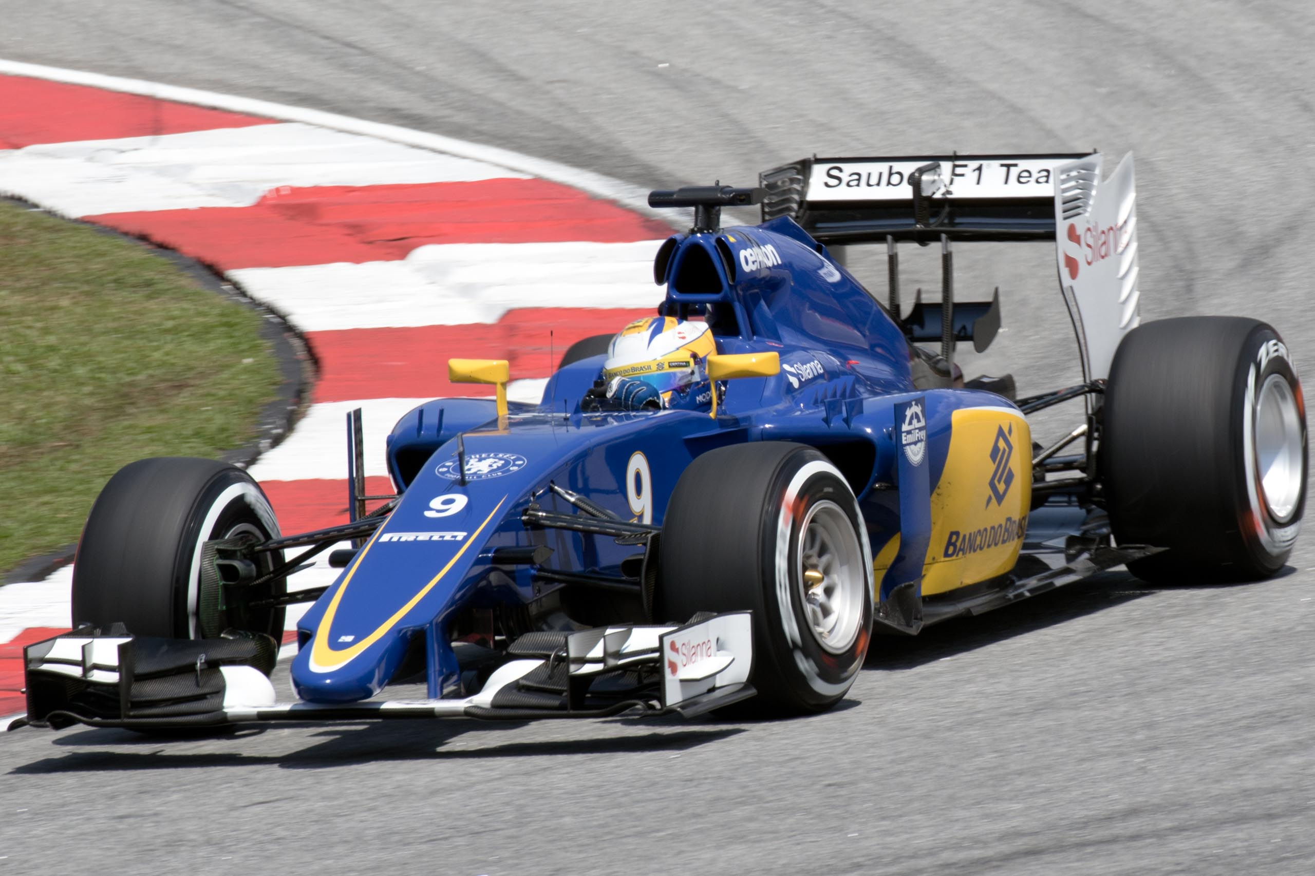 Formula One 2015 Rd.2 Malaysian GP: Marcus Ericsson (Sauber)